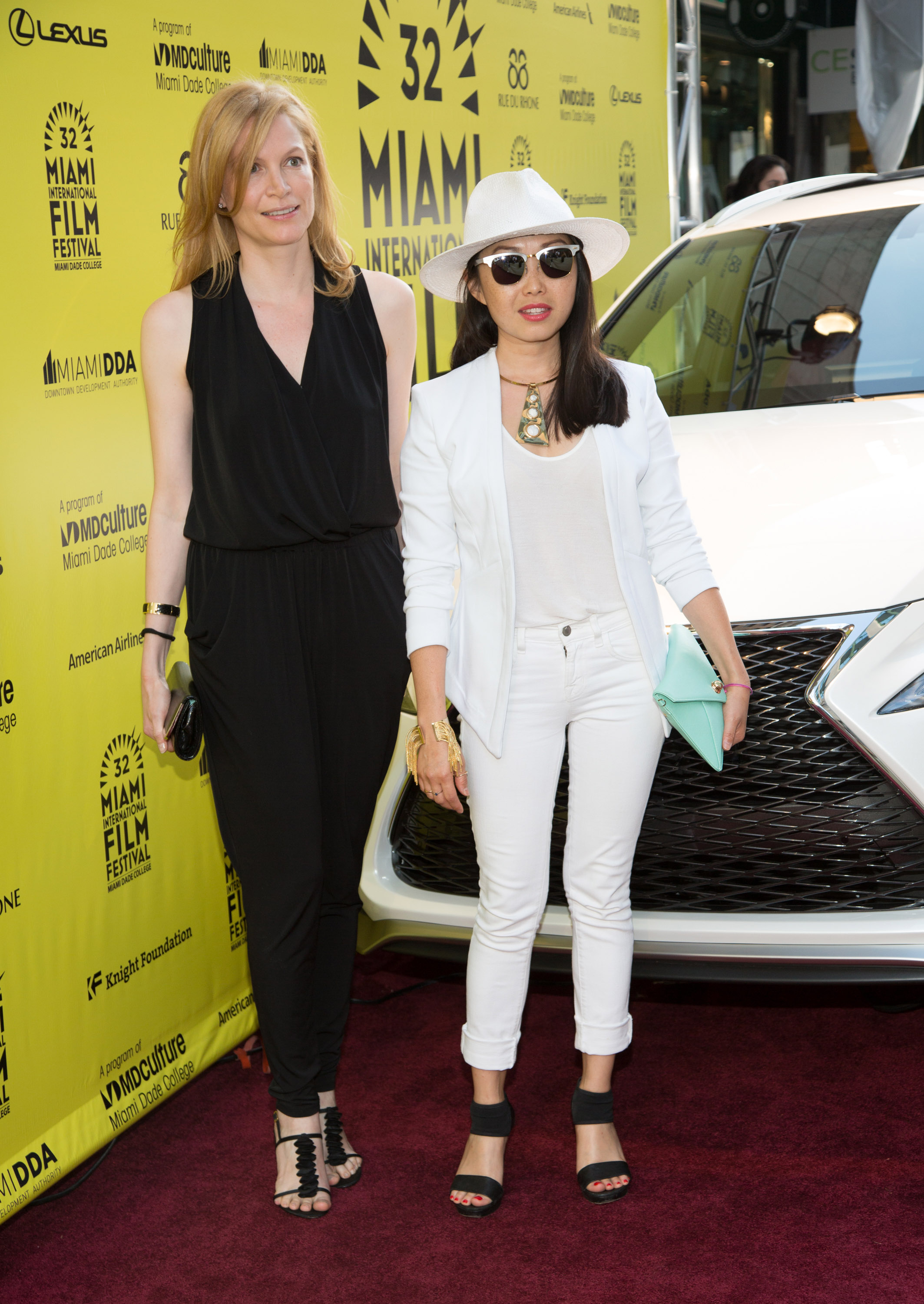 Bernadette Burgi (left) and Lulu Wang on the red carpet for the film Sidetracked at the Miami International Film Festival